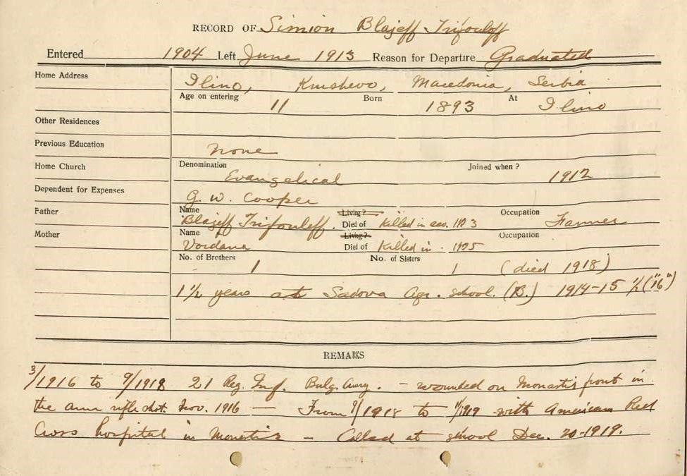 American Farm School Record of Simeon Trufouloff 1919